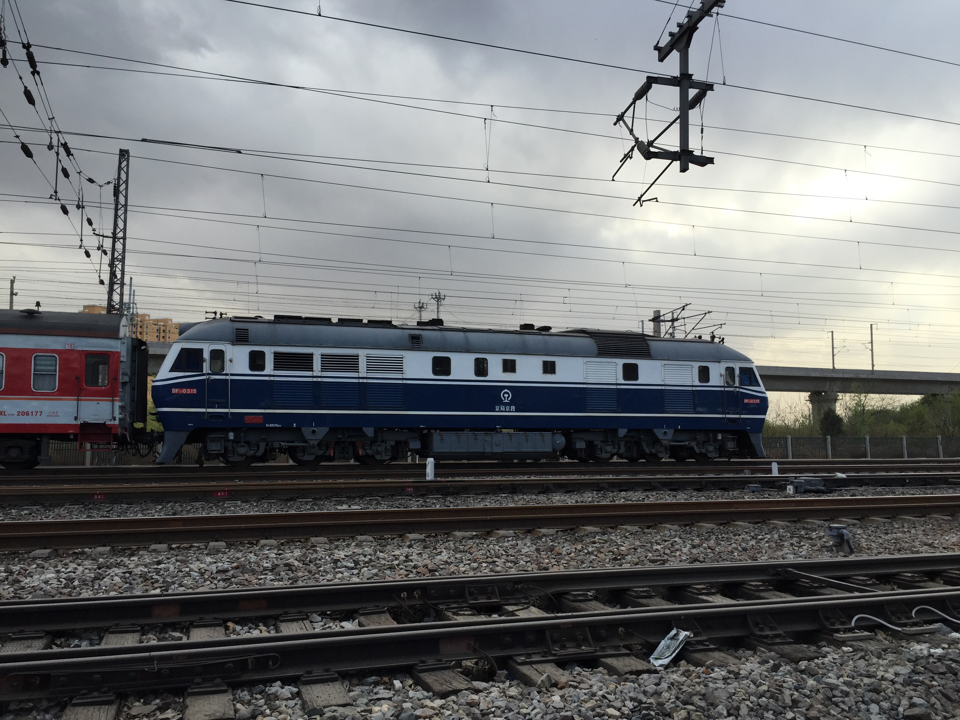 0K264 from Xizaolin. This time hauled by a DF11?